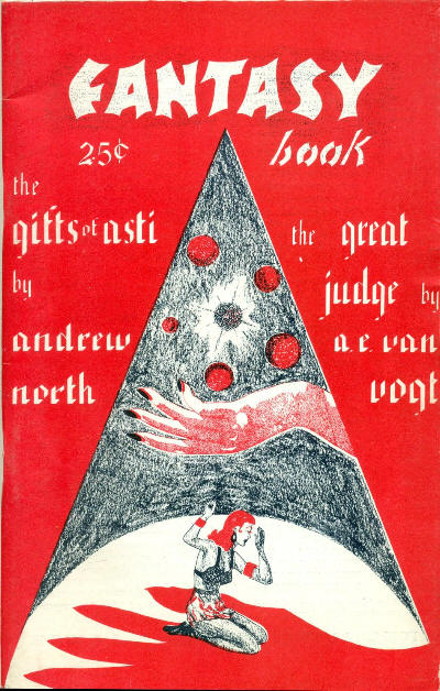 Cover, Fantasy Book, v1n3